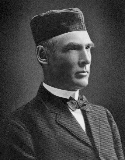 Alexander Dunnett 2 (US Attorney for Vermont)